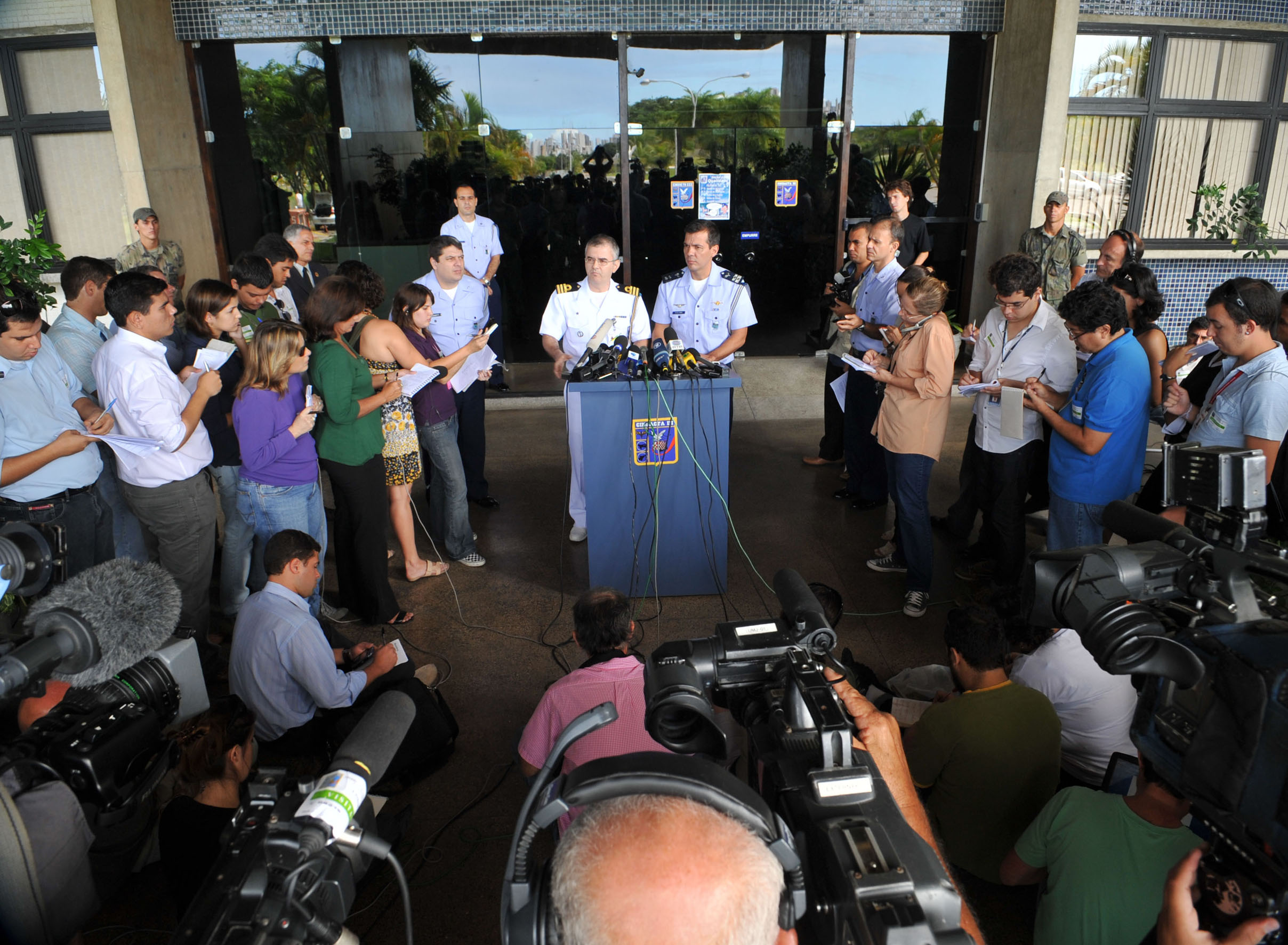 In a press conference, frigate captain Giucemar Tabosa Cardoso and Lieutenant Colonel Henry Munhoz state that three more bodies had been discovered at the Airbus A330 crash site.